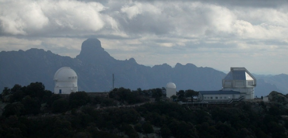 Baboquivari Peak with part of Kitt Peak National Observatory in the foreground.